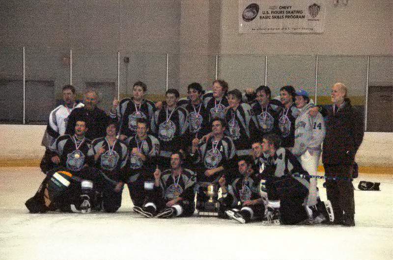 Georgetown University Hoyas ice hockey club team after their 2005 ACCHL championship, taken by HockeyBear